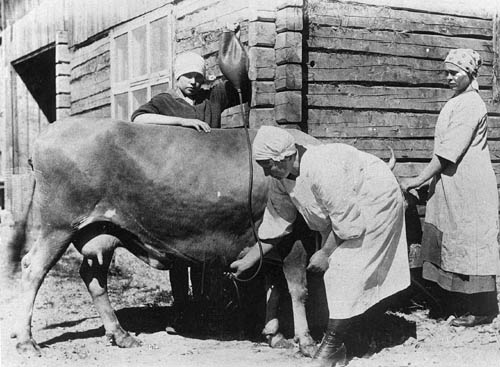 Finnish veterinarian Agnes Sjöberg, 1888–1964, the first woman in Europe to achieve doctorate in veterinary medicine.